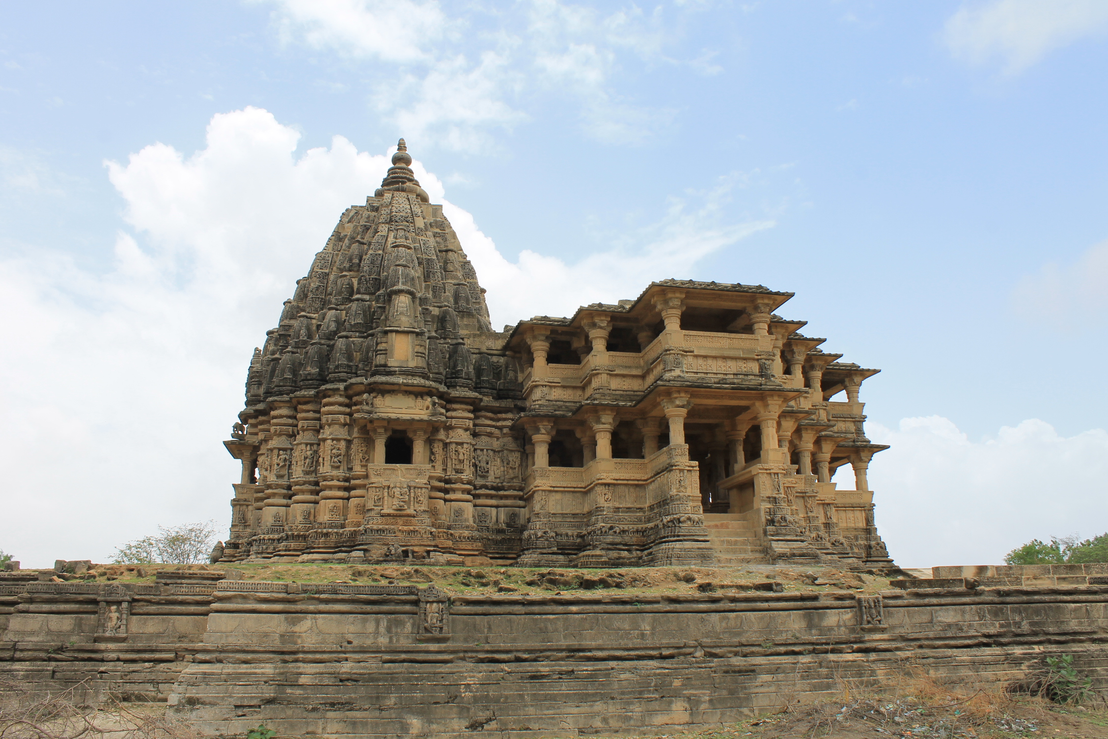 Navlakha Temple Side view of navlakha temple